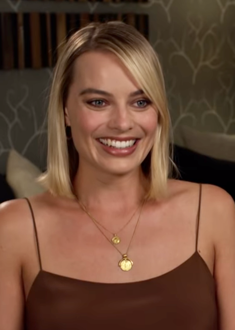 Margot Robbie reveals to MTV that she’s been watching in the pub watching all the England World Cup matches, that she thinks football is DEFINITELY coming home, and as just as obsessed with Love Island as you are. A woman after our own heart!